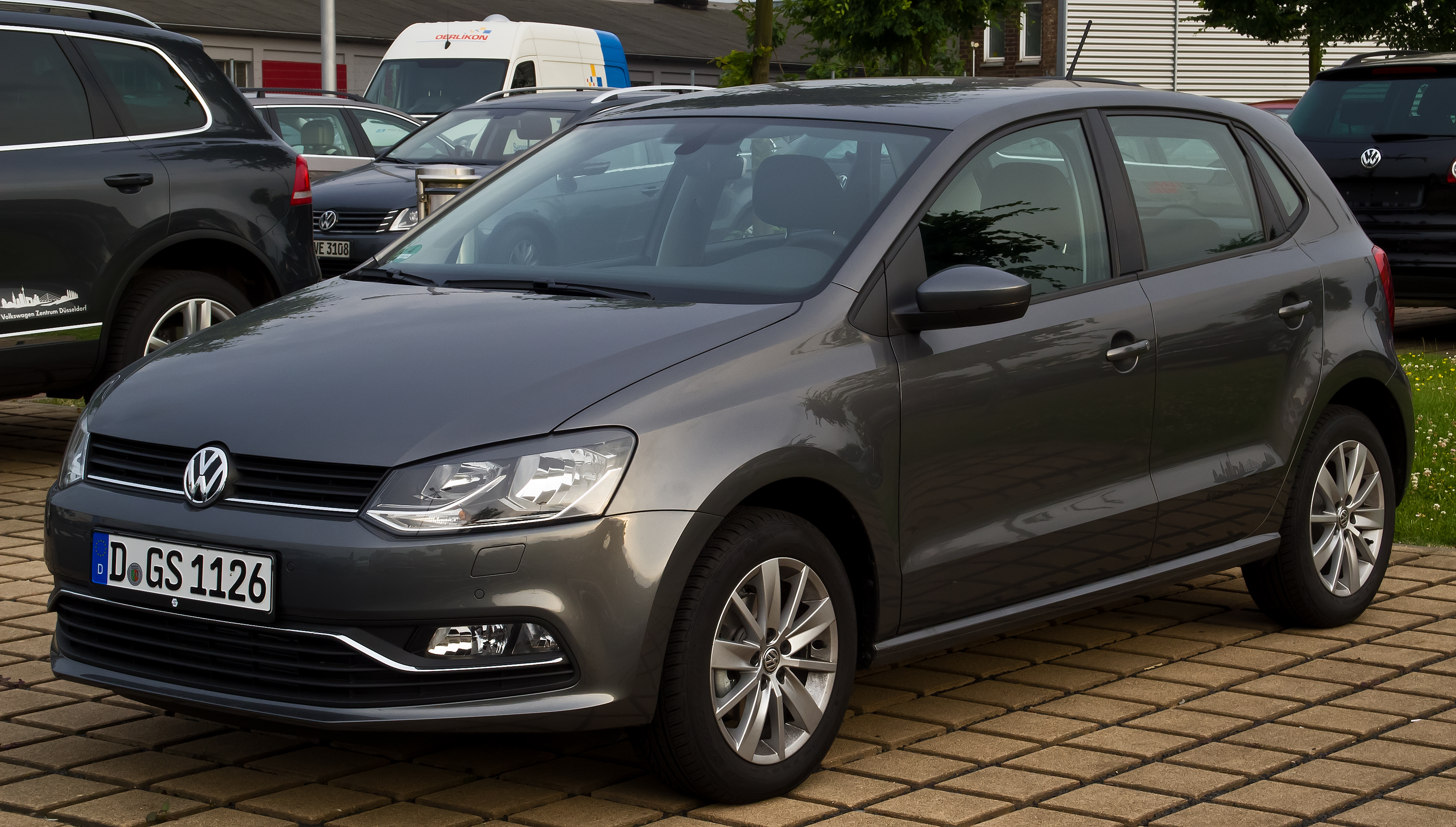 VW Polo 1.2 TSI BlueMotion Technology Comfortline (V, Facelift)